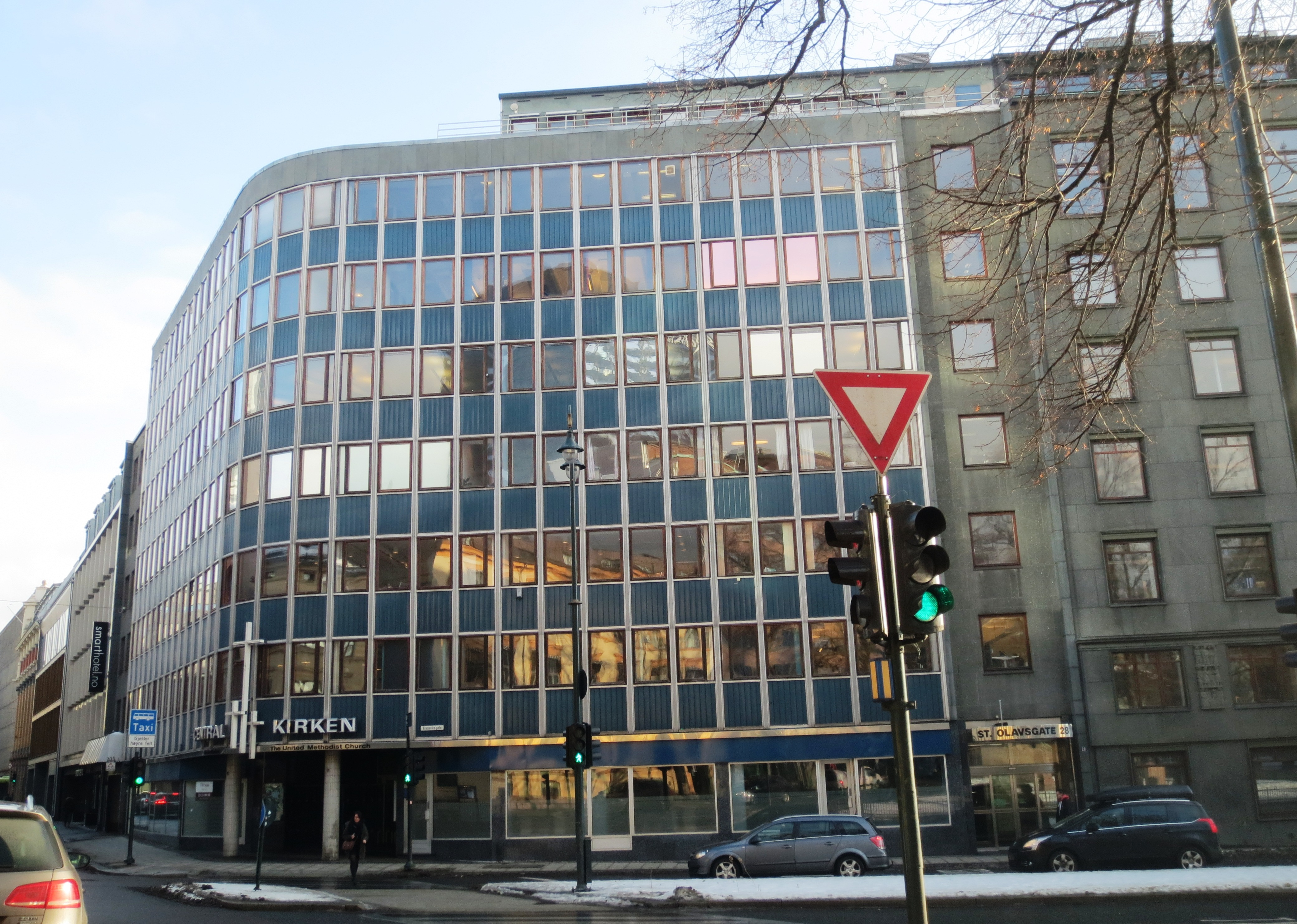 Centralkirken, a Methodist Church in Central Oslo, Norway